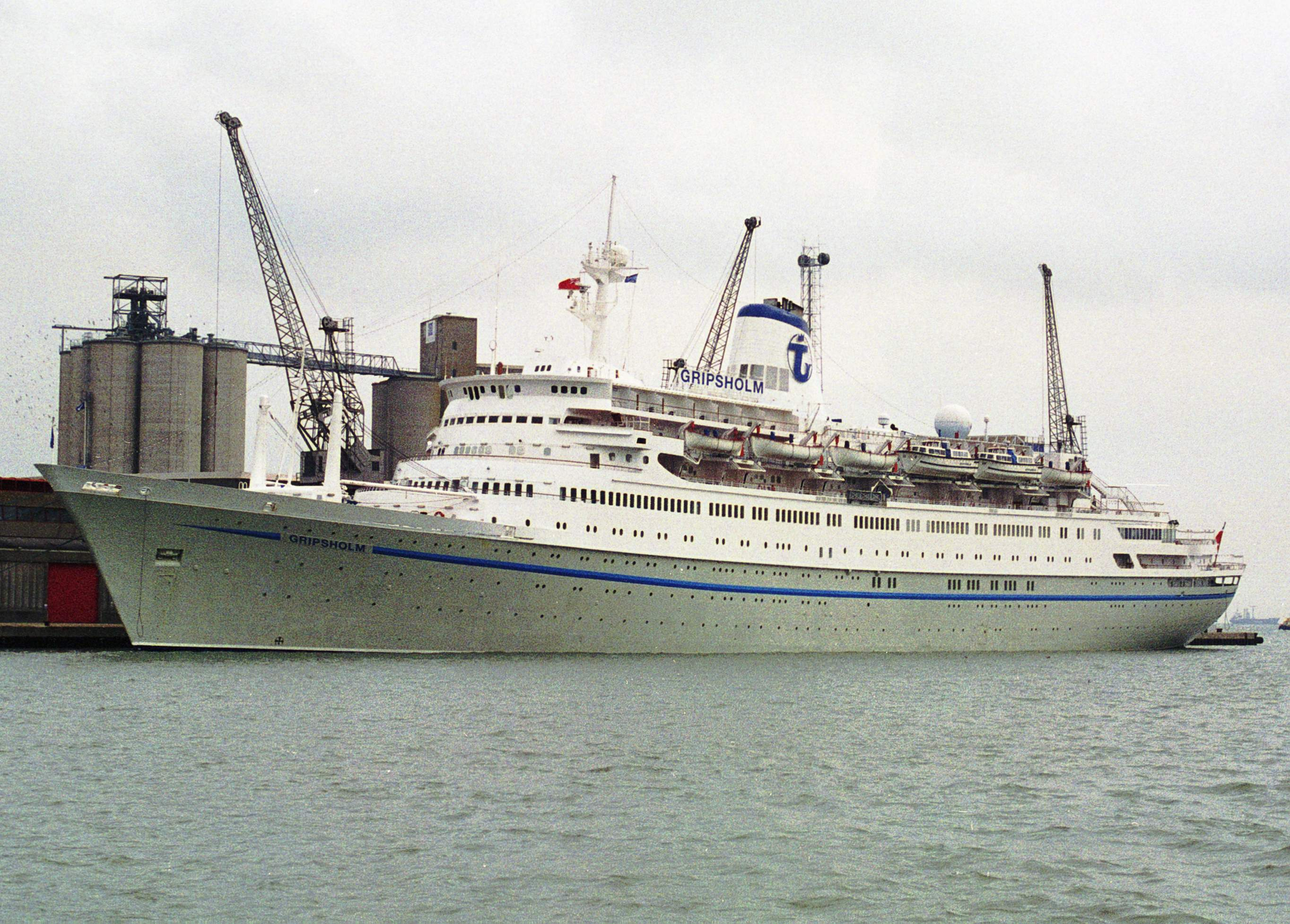 The cruise ship Gripsholm moored at Southampton on October 12, 1996.